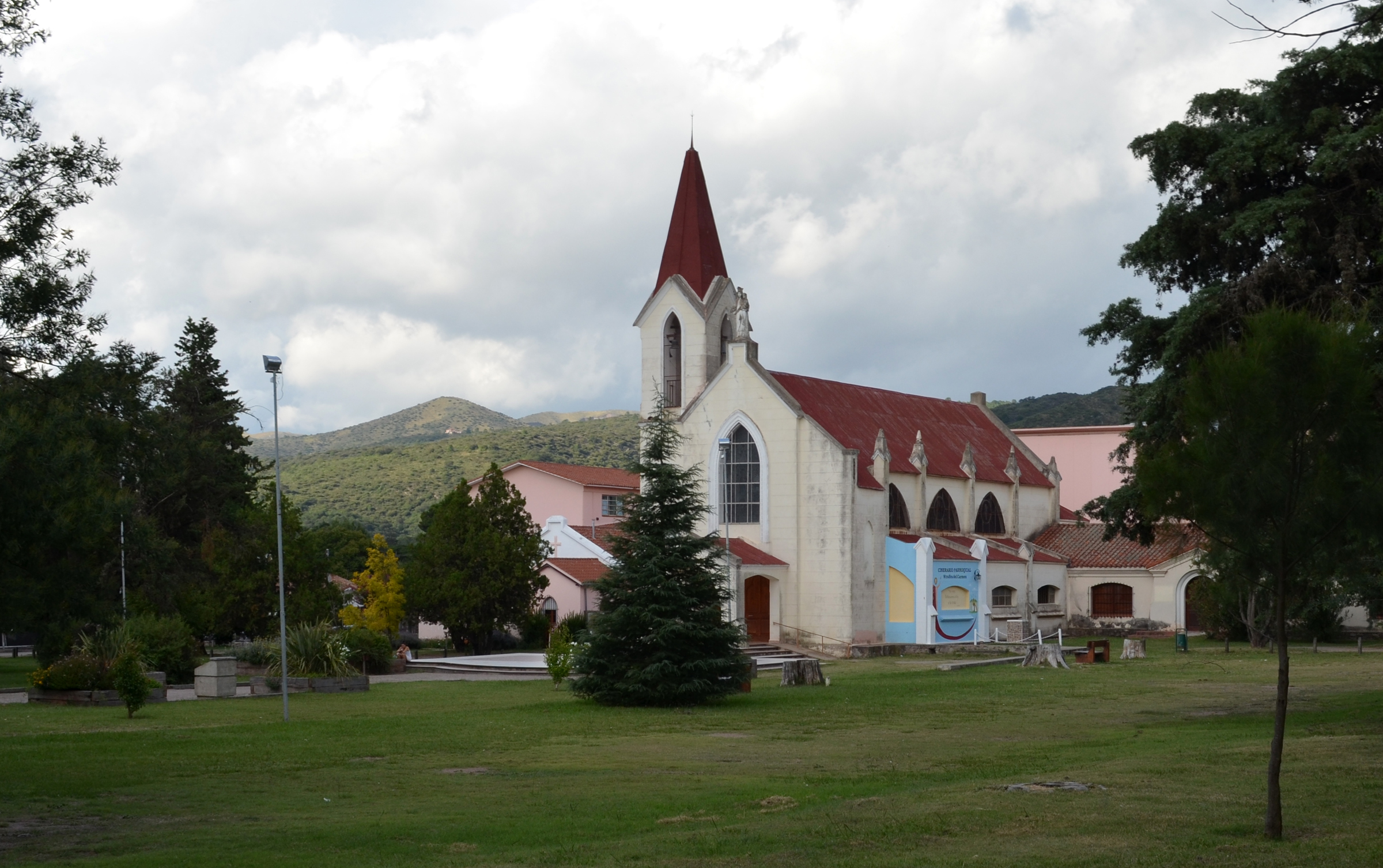 Nuestra Señora del Carmen Church. La Cumbre City, in the Greater Córdoba, Argentina.